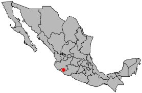 Locator map of Colima, Colima, Mexico